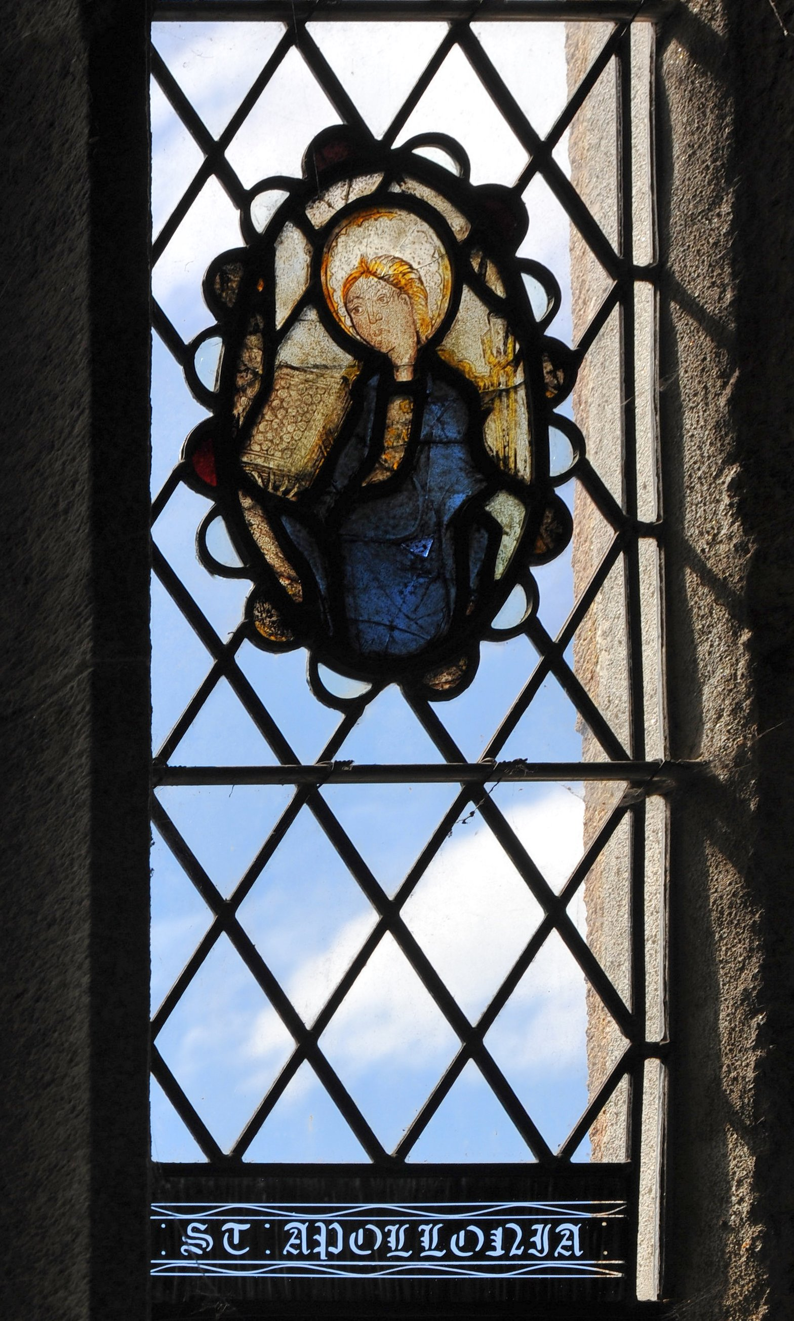 The stained glass image of Saint Apollonia in Kingskerswell church, Devon, England. (Perspective corrected)